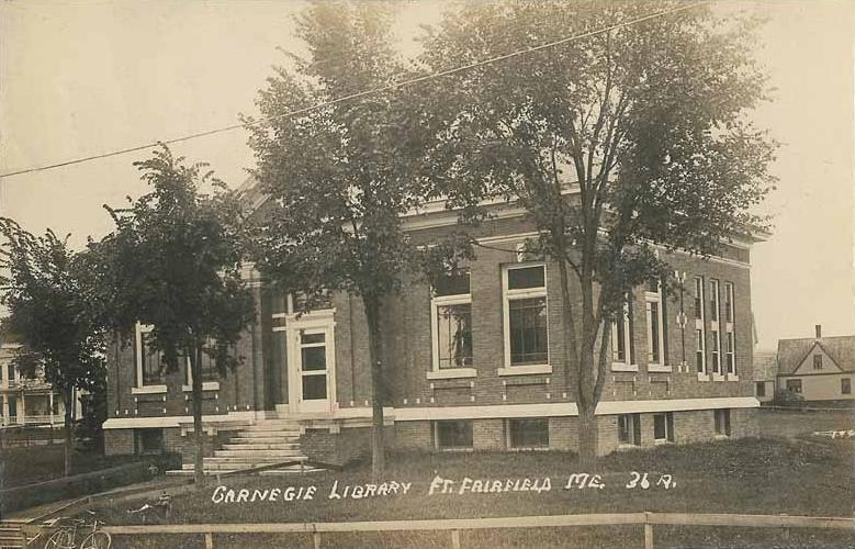 Public Library, Fort Fairfield, Maine. Designed by Harry S. Coombs of Lewiston, Maine, it was built in 1912-1913.